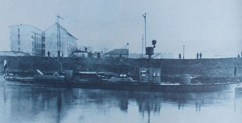 Austro-hungarian S.M. Patrouillenboot i - later Fogas and Gödöllő - shortly after commisioning